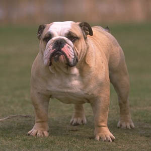 Bulldog